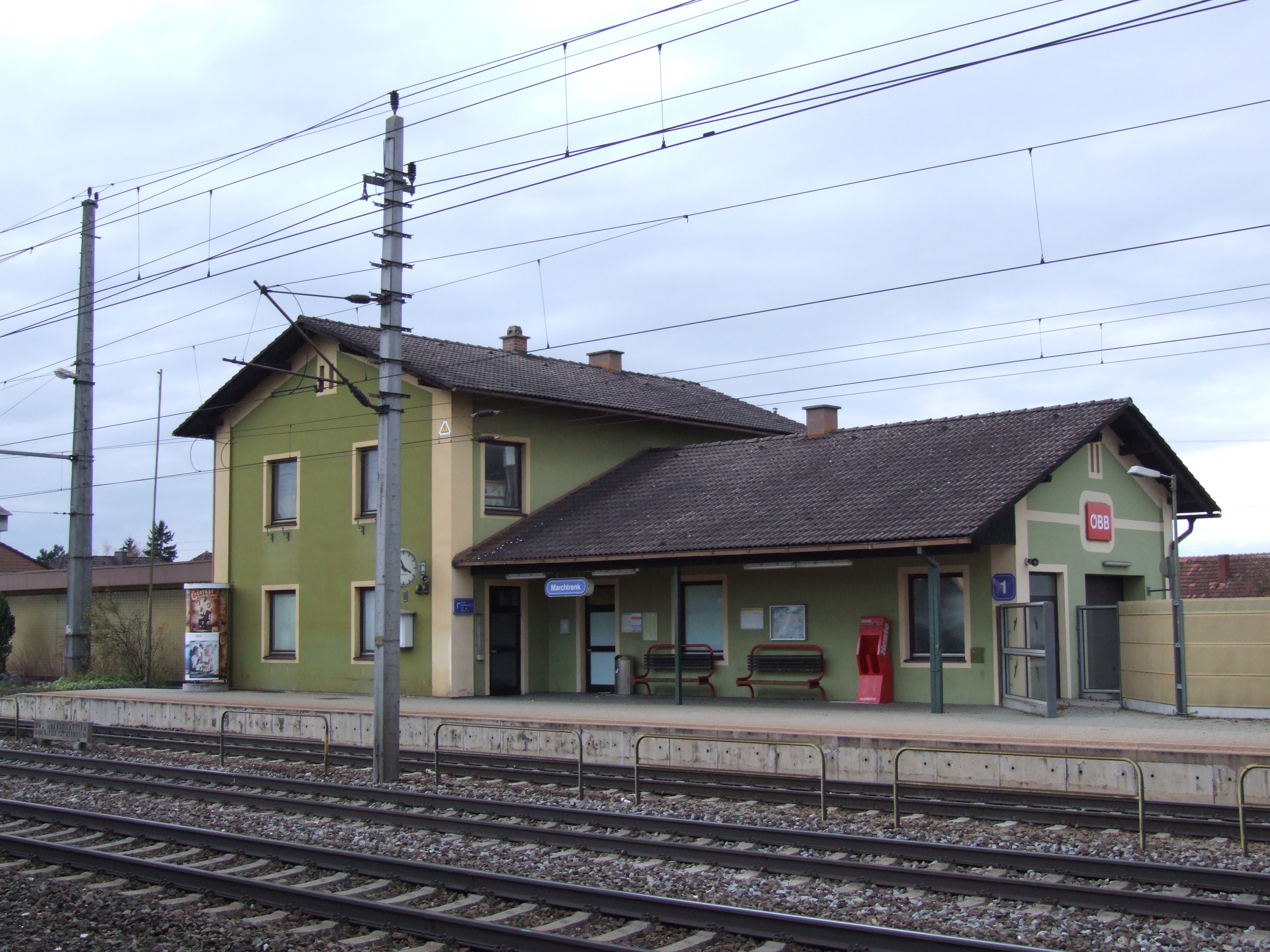 Railway station Marchtrenk